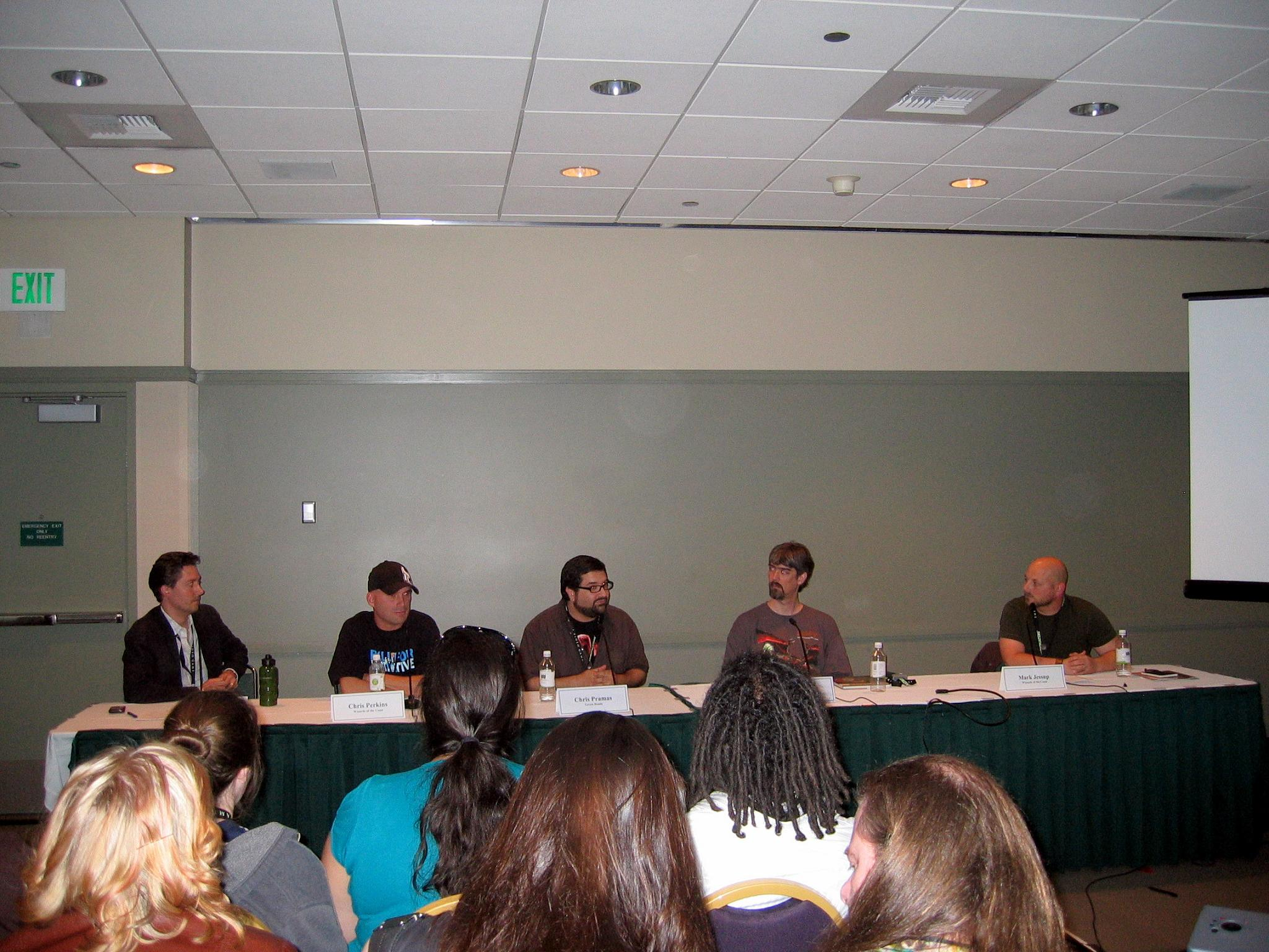 "The Art of the Dungeon Master" panel at PAX 2008, with Mark Jessup, Chris Perkins, James Wyatt of WotC, and Mike Fehlauer from Penny Arcade